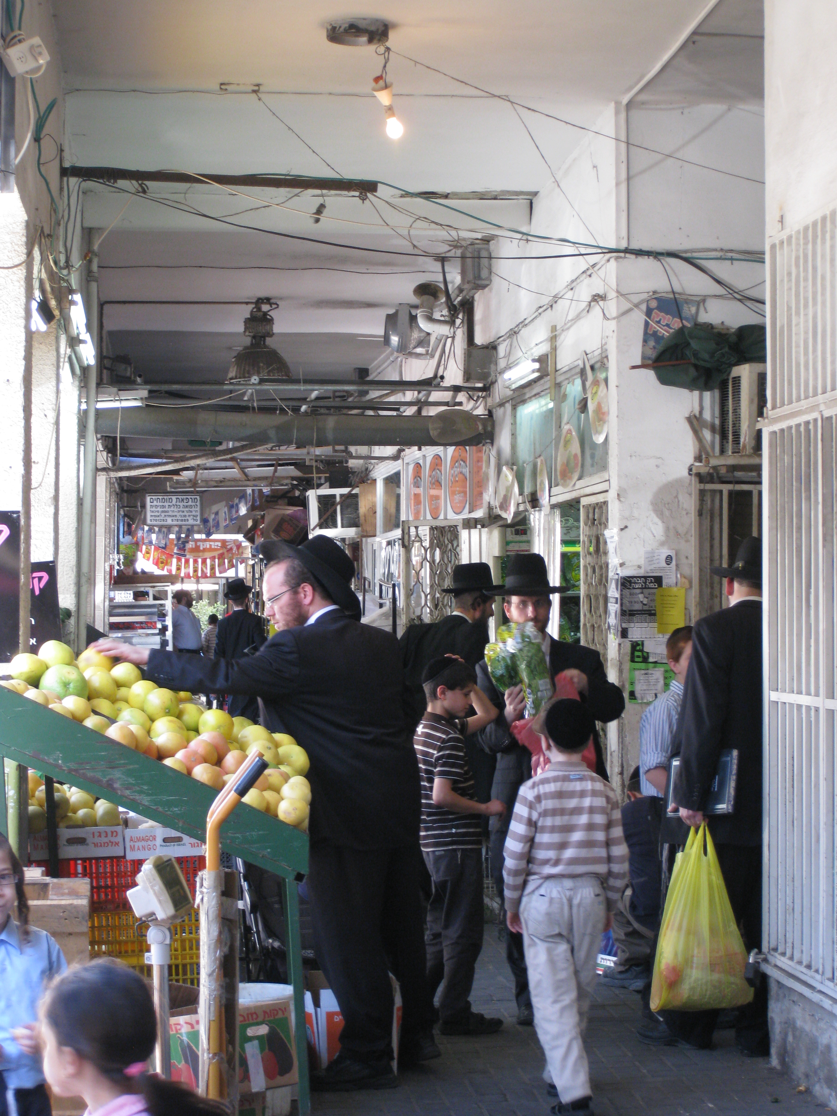 Bnei Brak